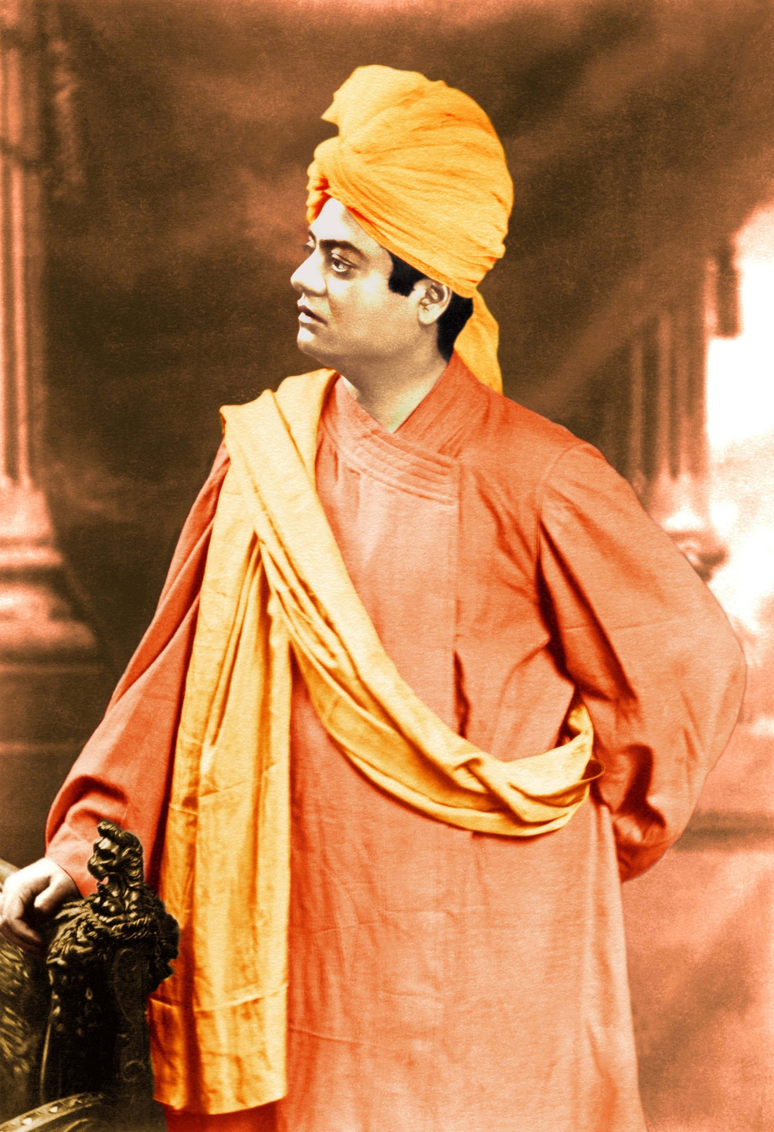 In 1896 Swami Vivekananda delivered a series of lectures in London. This photograph (and few other photographs) were taken in this period in December 1896. The image was printed in both black and white and color and was circulated to the disciples of Vivekananda of England and America.